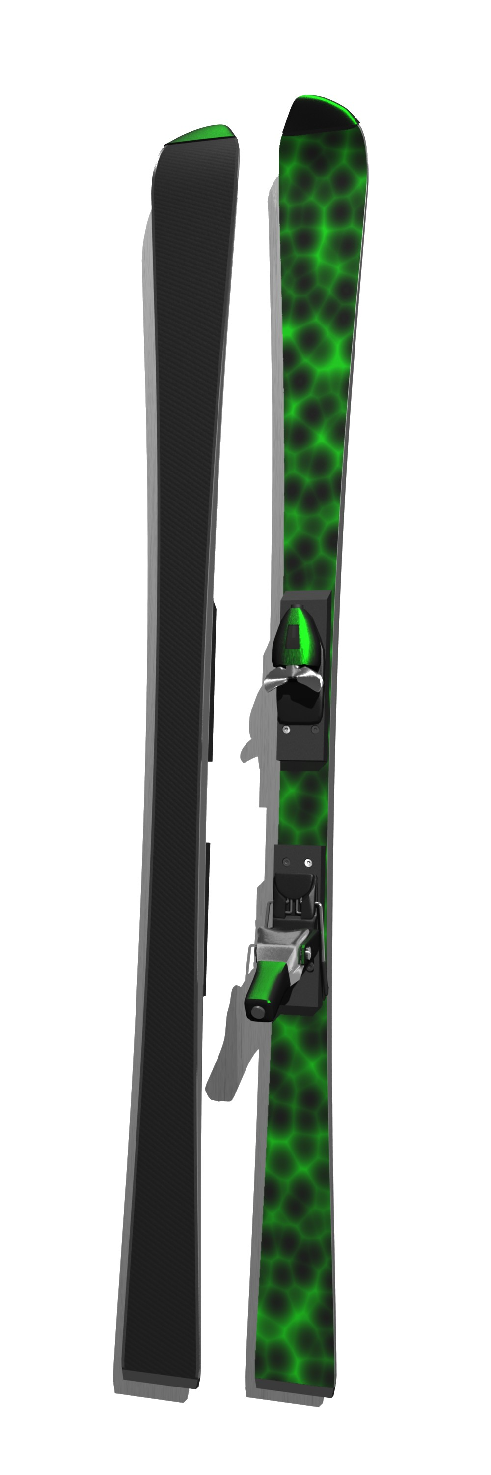 An exemplary ski with plate render